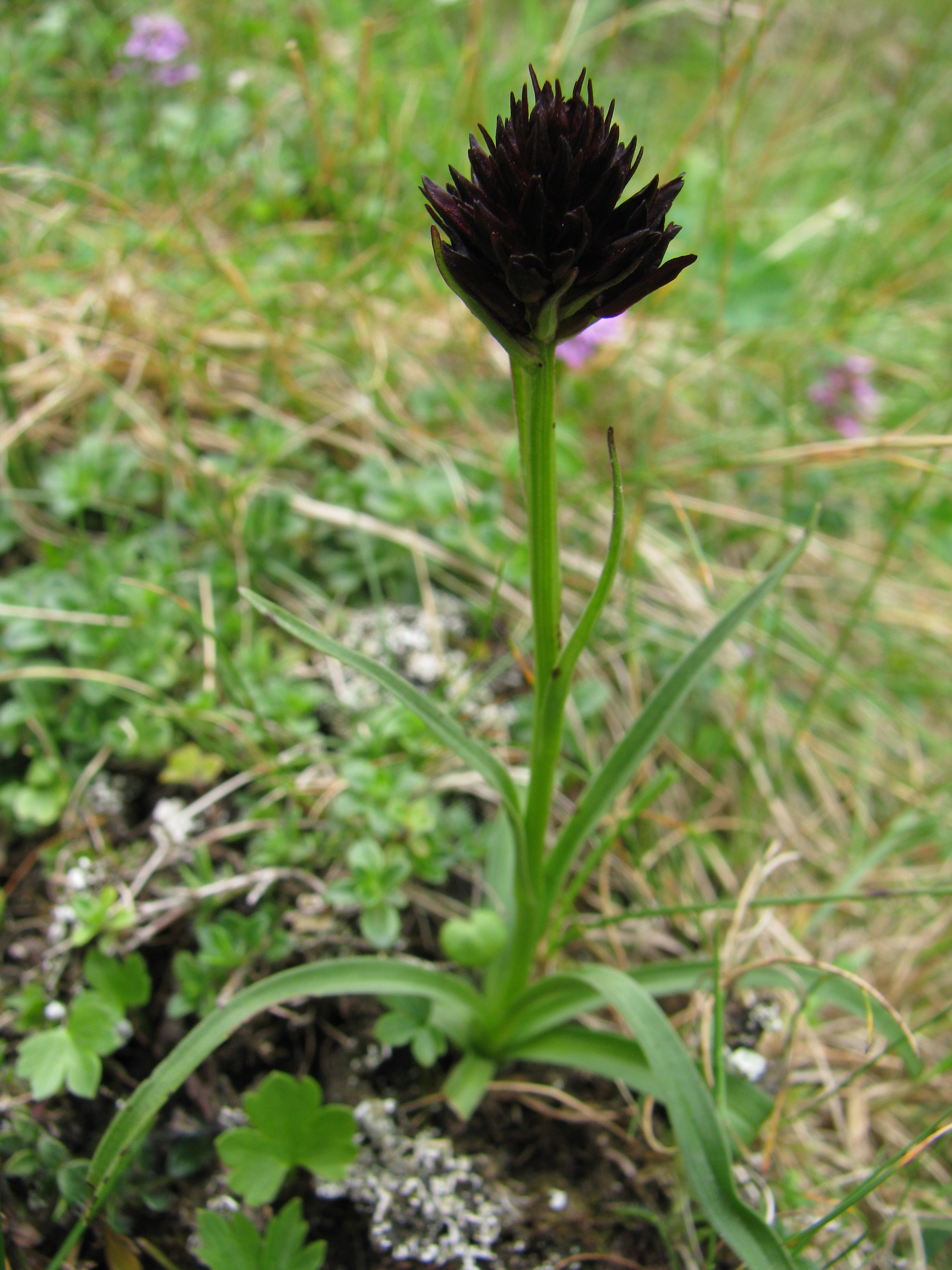 Gymnadenia gabasiana